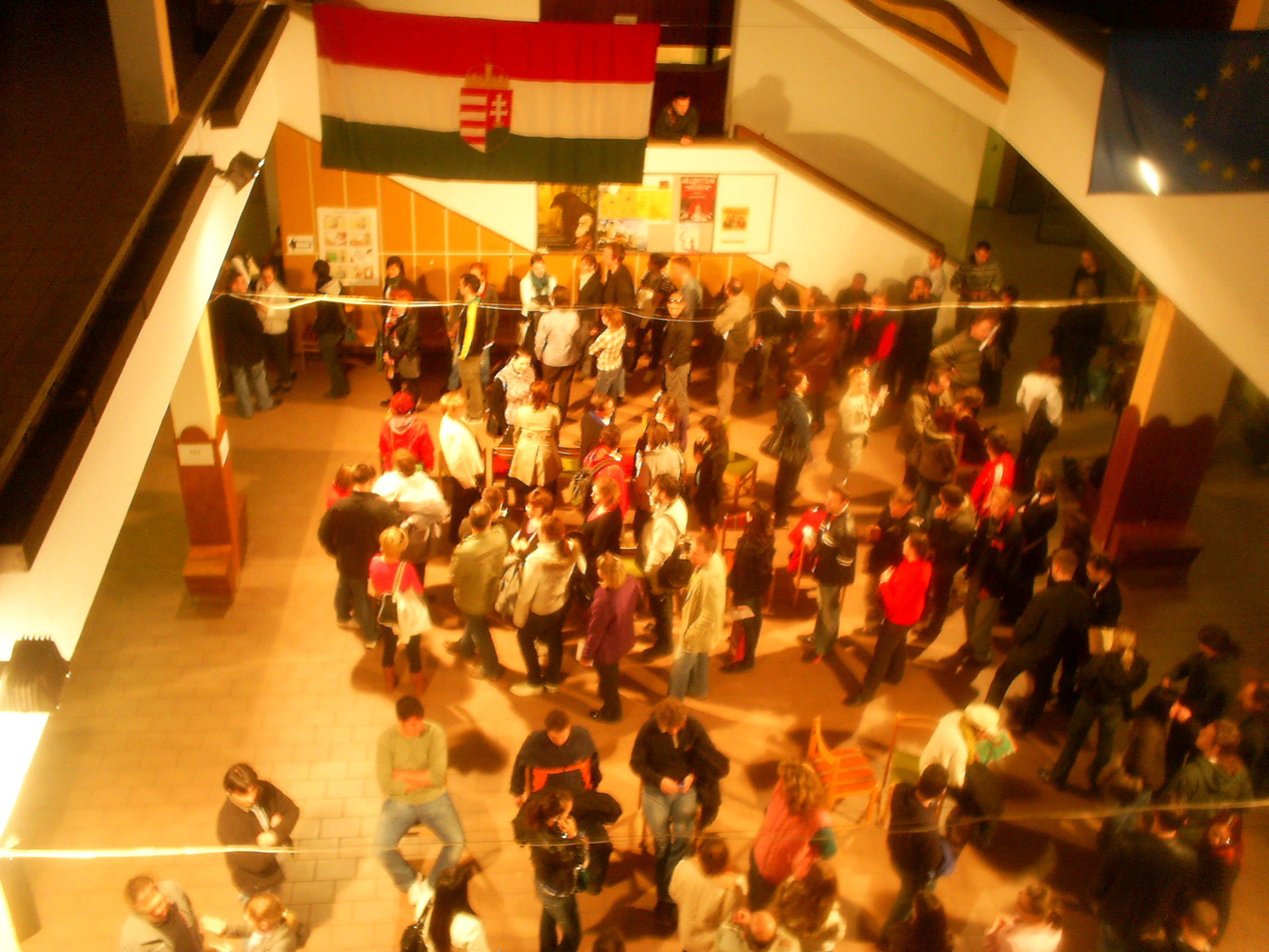 People lined up, waiting to vote in Szeged, during the first round of the parliamentary election of 2010.